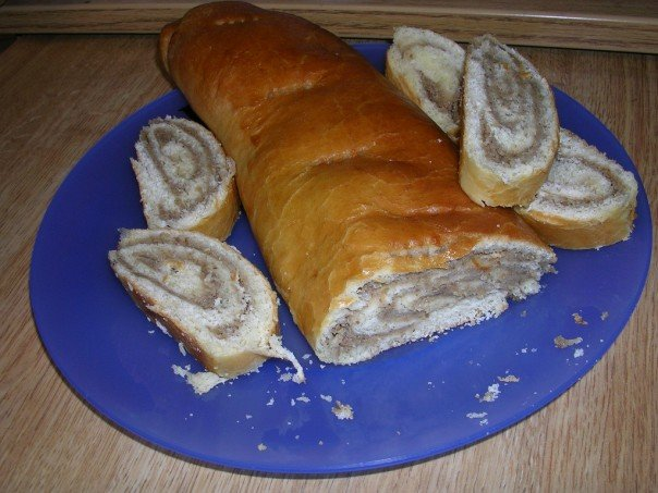 Photo of a walnut filling nut roll. I cannot confirm that it is a kolache, as I only know of it as a nut roll which is what the label (not shown) also stated it was.